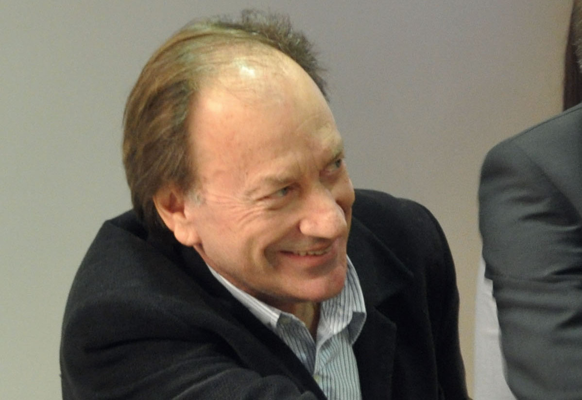 Goran Paskaljević